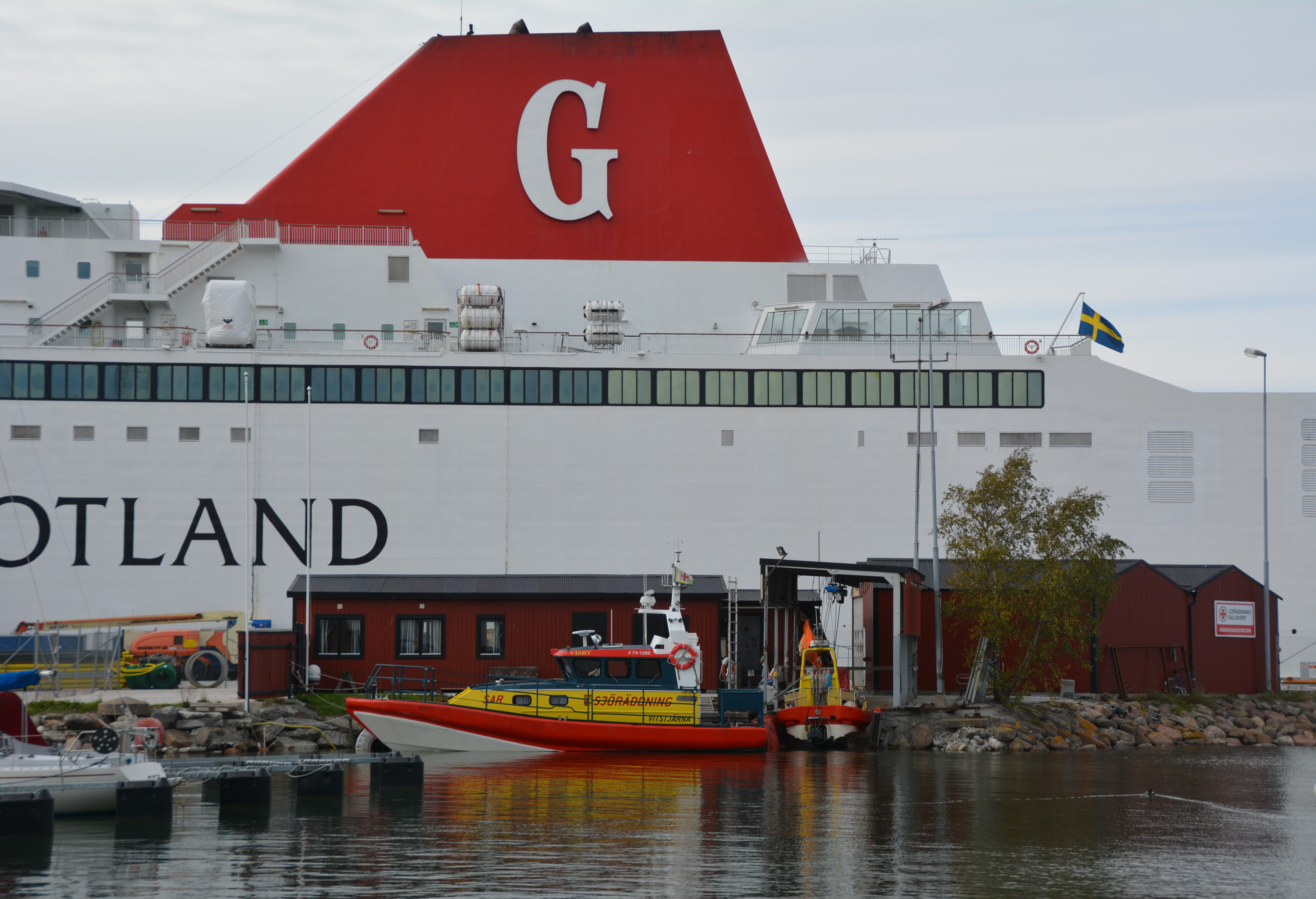 Sjöräddningssällskapets Räddningsstation Visby- M/S Visby i bakgrunden.